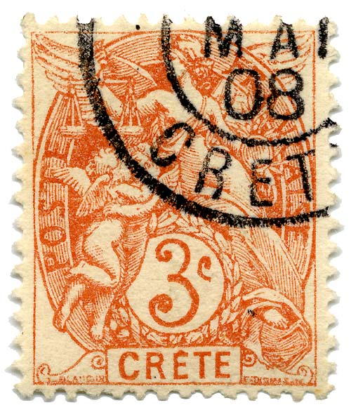 Scan of French post offices in Crete 3c stamp of 1902